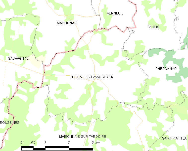 Map of French municipality Les Salles-Lavauguyon